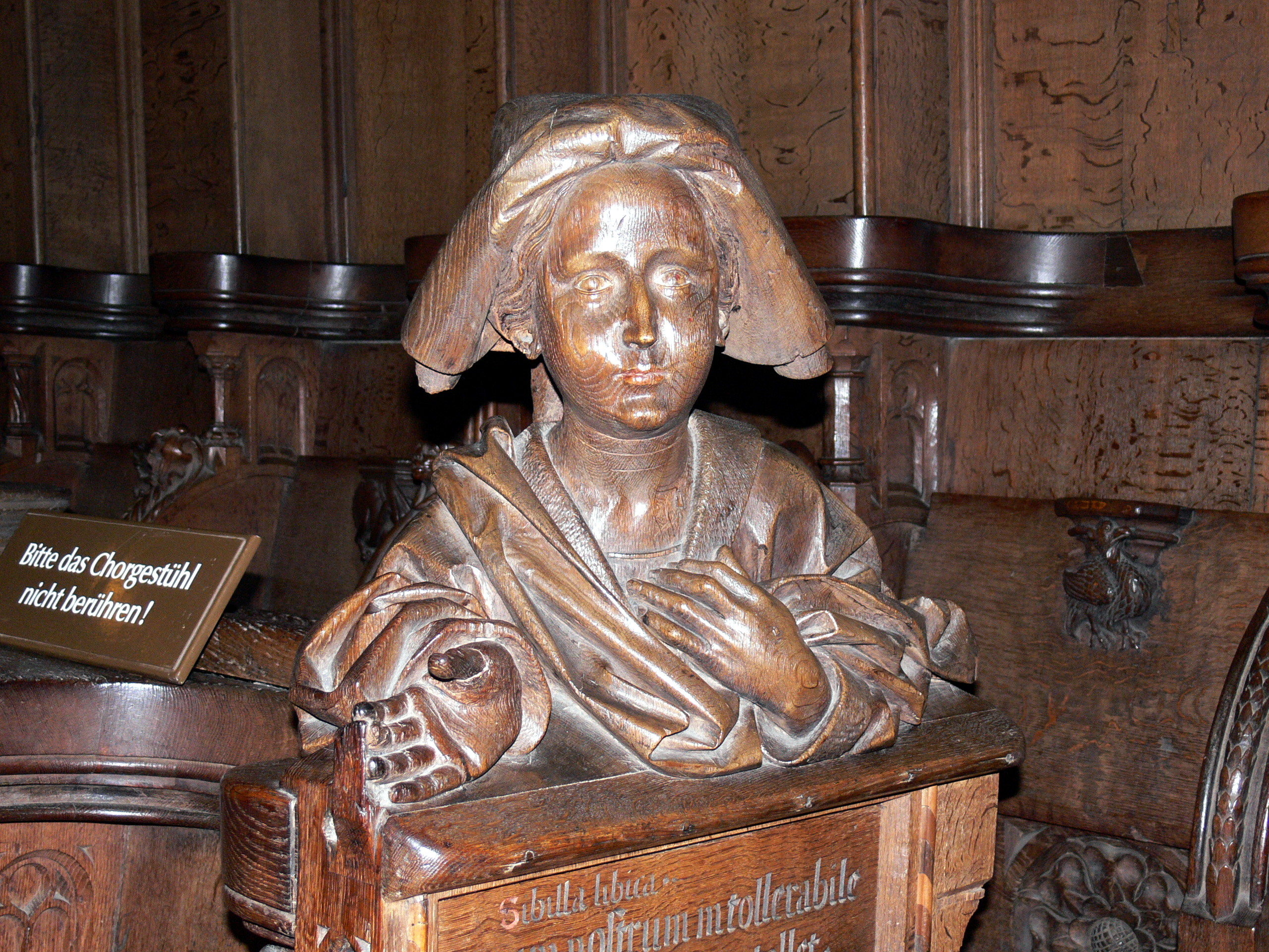 Ulm minster. Choir stalls - Sibyl of Libya